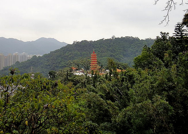 Ten Thousand Buddhas Temple